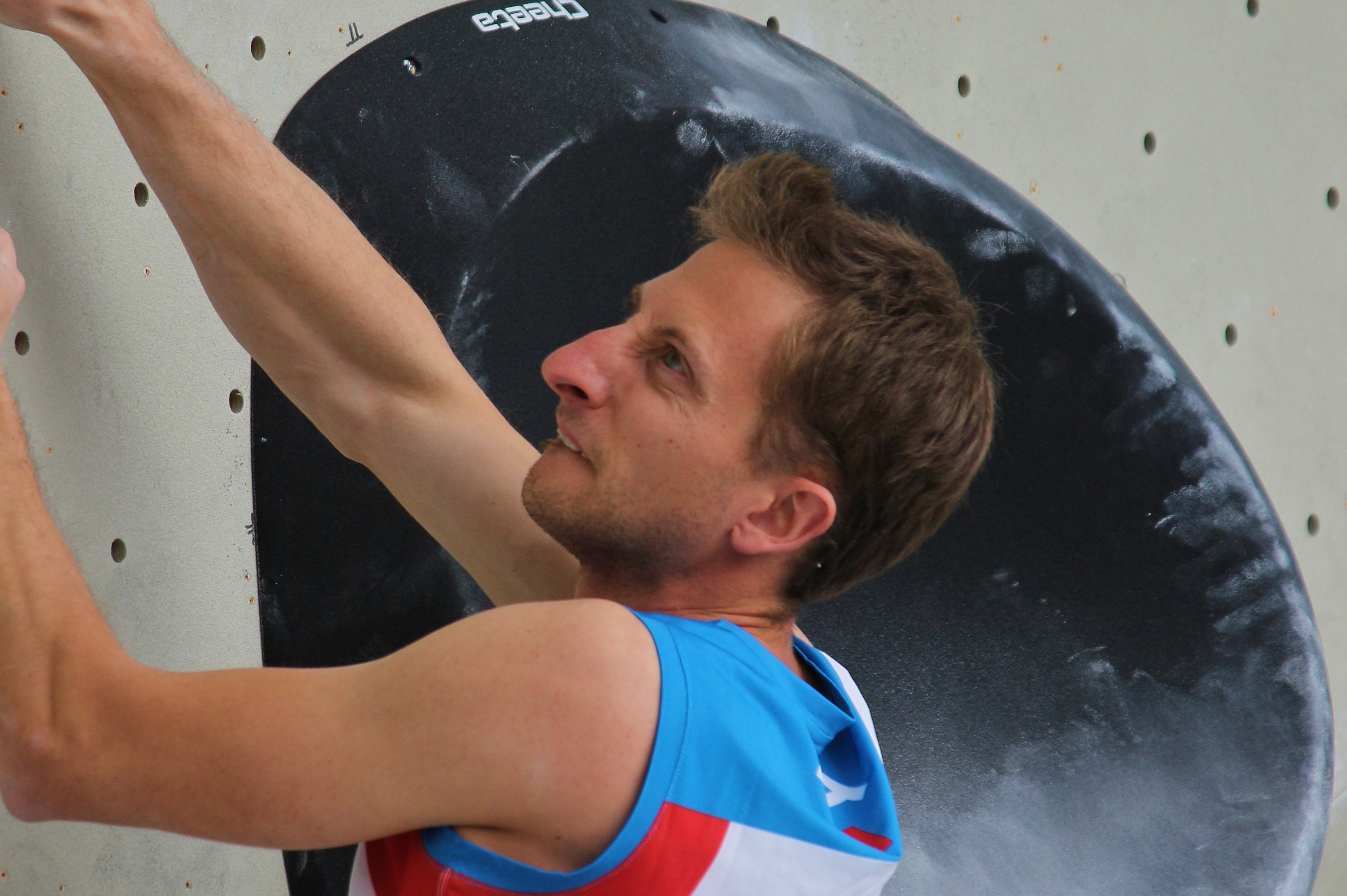 Stefan Scarperi